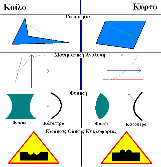 Convexity examples